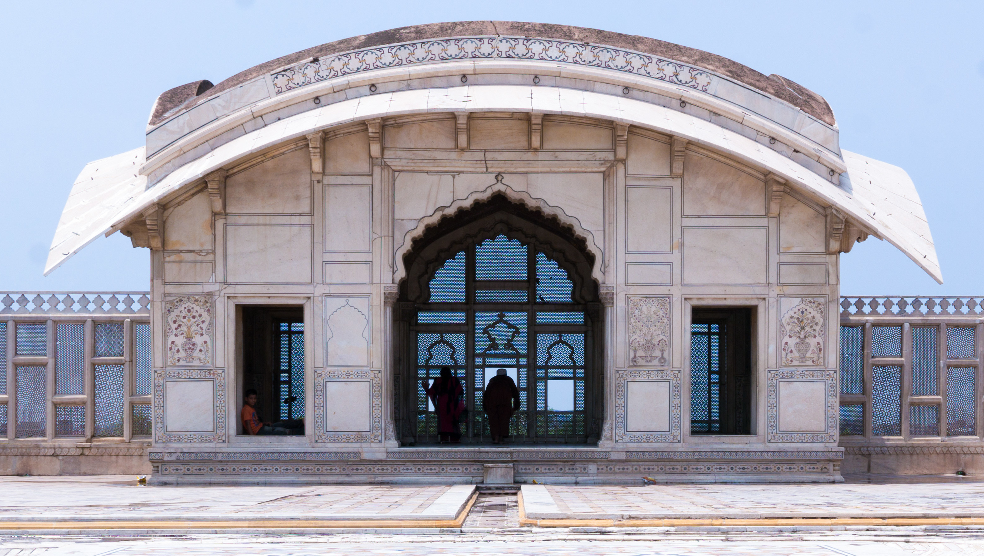 Lahore Fort complex (including Moti Masjid, Naulakha Pavilion, Sheesh Mahal and others) This is a photo of a monument in Pakistan identified as the PB-67